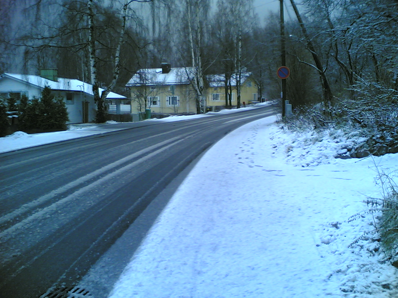 Viikingintie street in Vartioharju in Helsinki, Finland